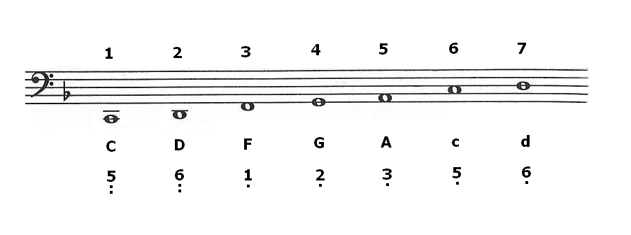 Self made image of the scale of the guqin in staff notation.